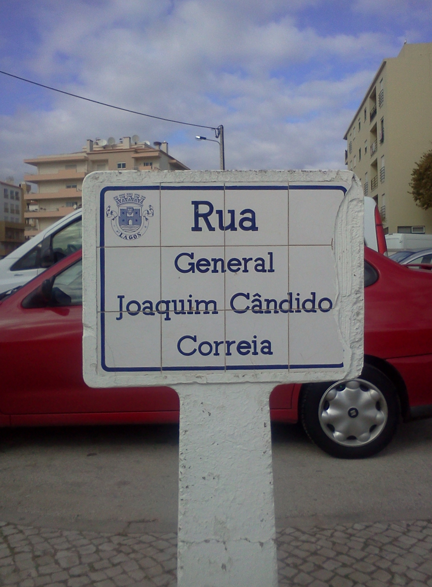 Street sign of Rua General Joaquim Cândido Correia, in the city of Lagos, in southern Portugal.